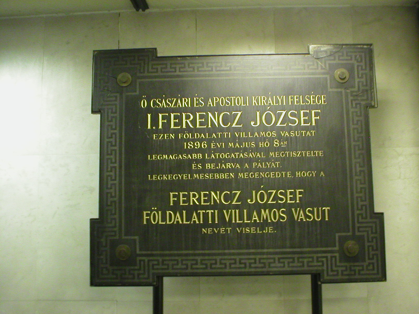 Opening plaque of the Budapest Földalatti in the metro museum at Deák tér